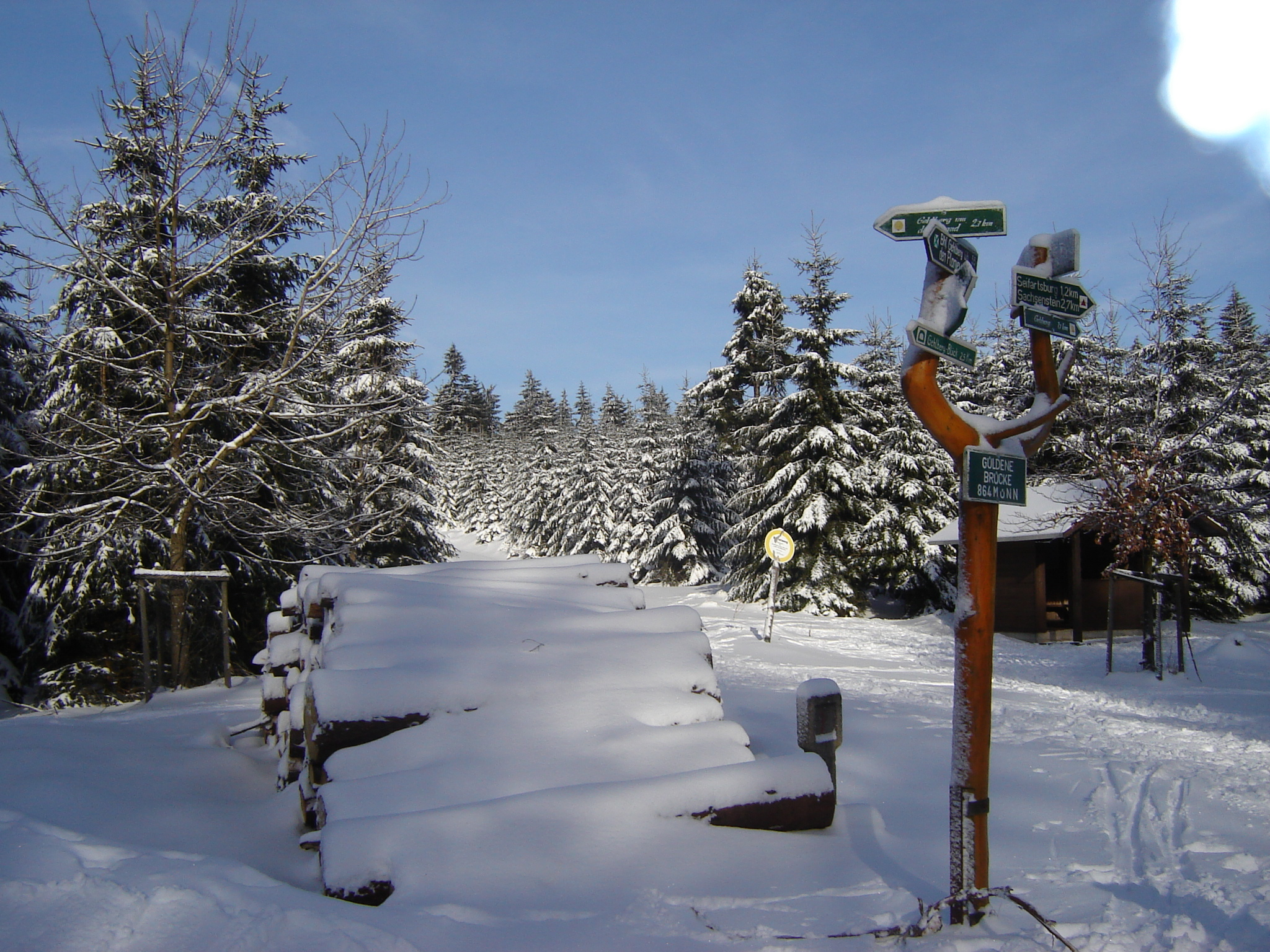 Thuringian forest in winter